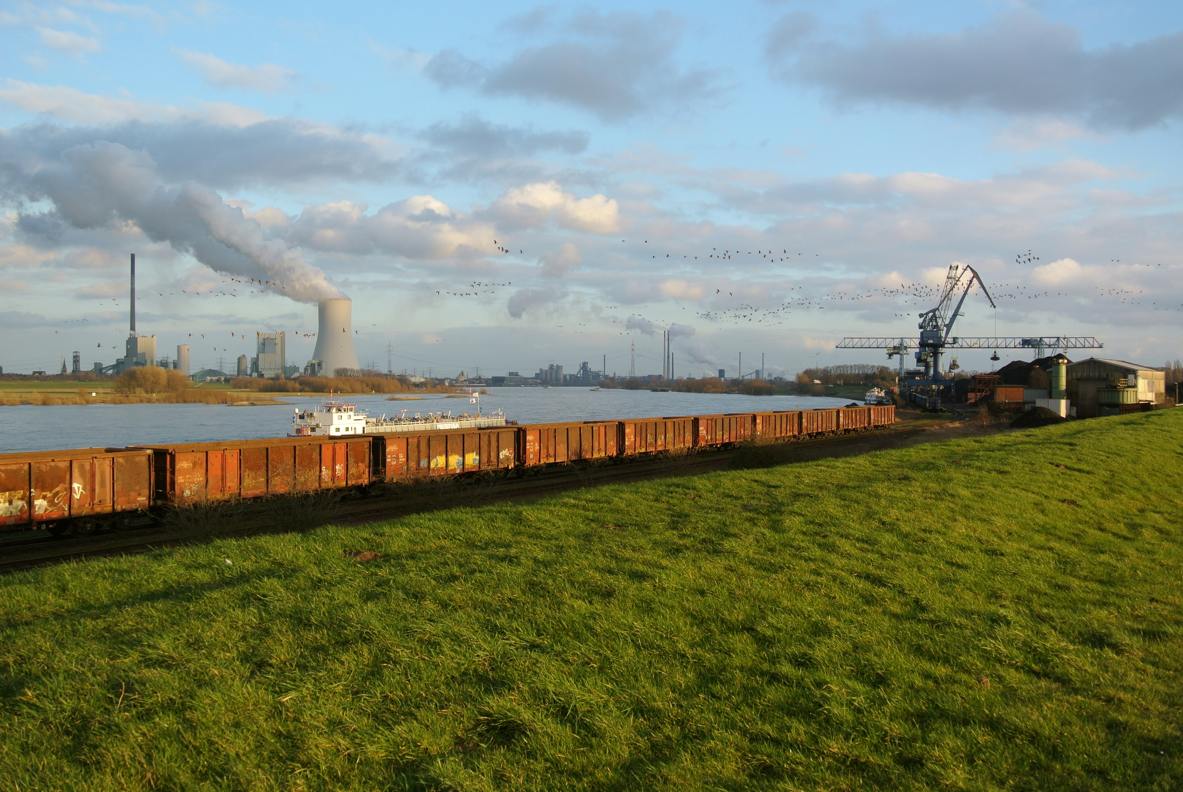 The port of Orsoy (Rheinberg), Rhine and power station of Duisburg-Walsum, view towards SE.